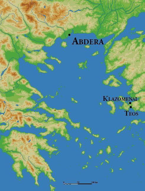 Abdera location in Thrace and location of its metropolis Clazomenai and Teos.